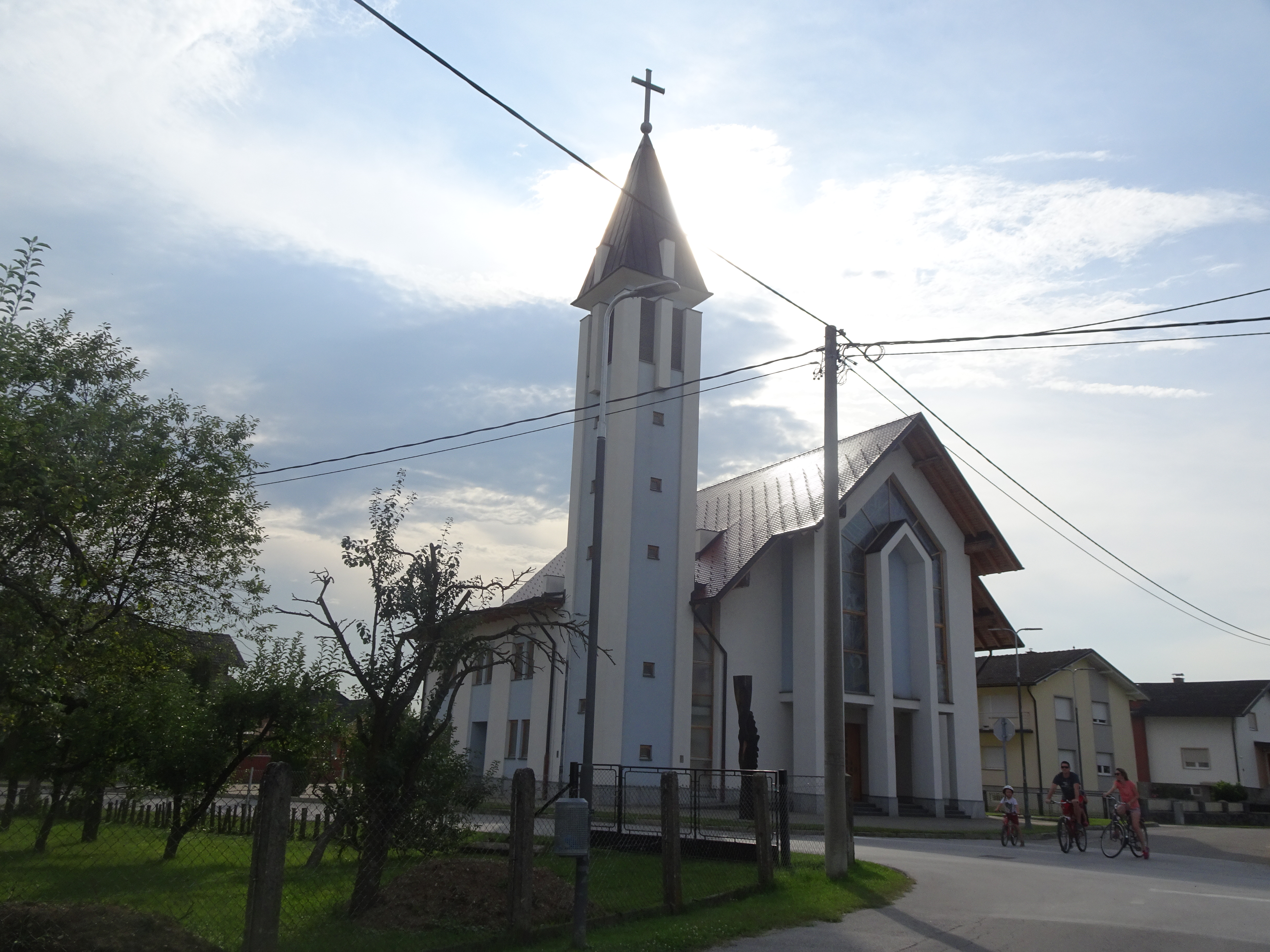 Church of the Immaculate Heart of Mary, Pragersko, Slovenia